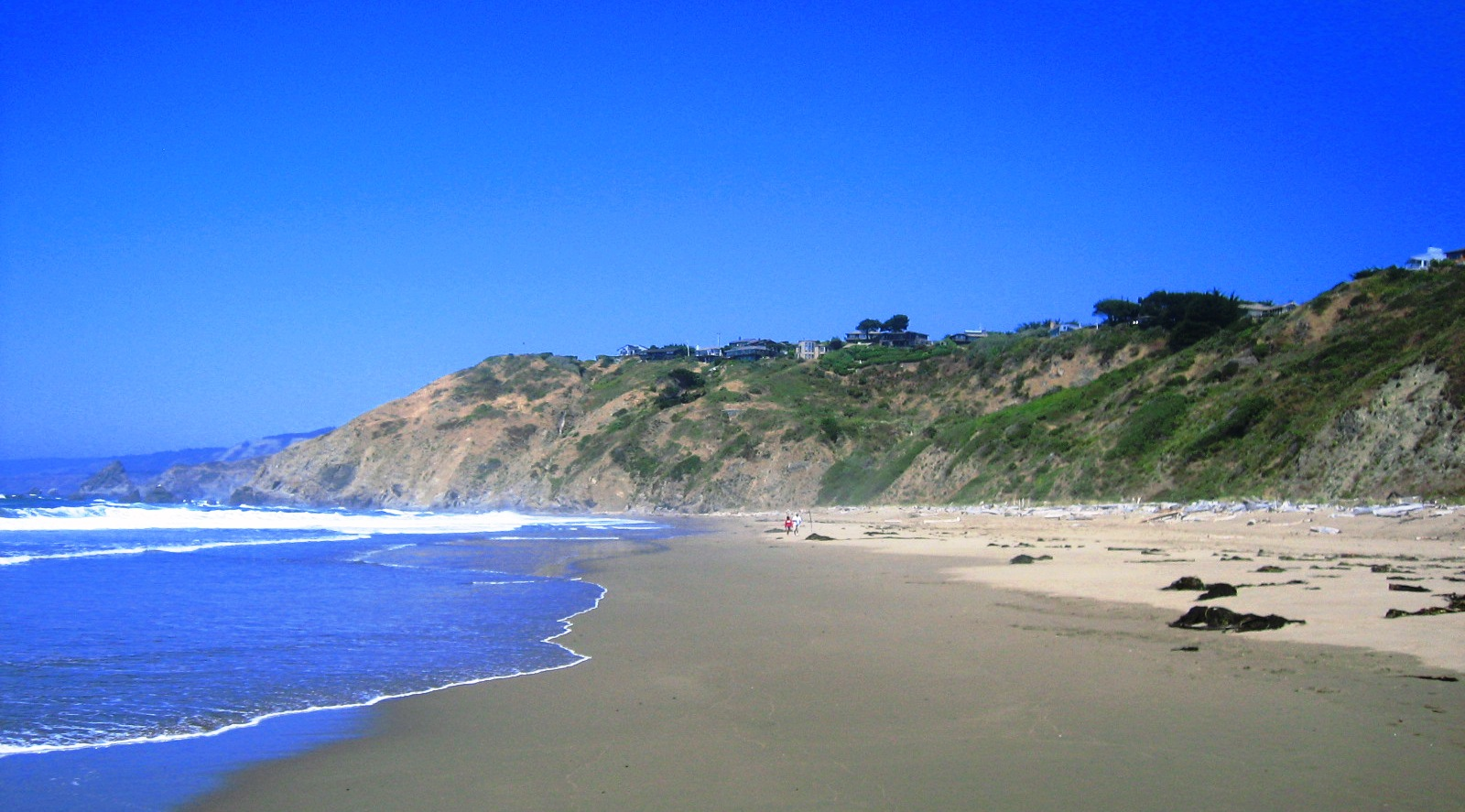 Shot Taken on August 8, 2006 horseback riding in Elk, CA in Mendecino County.